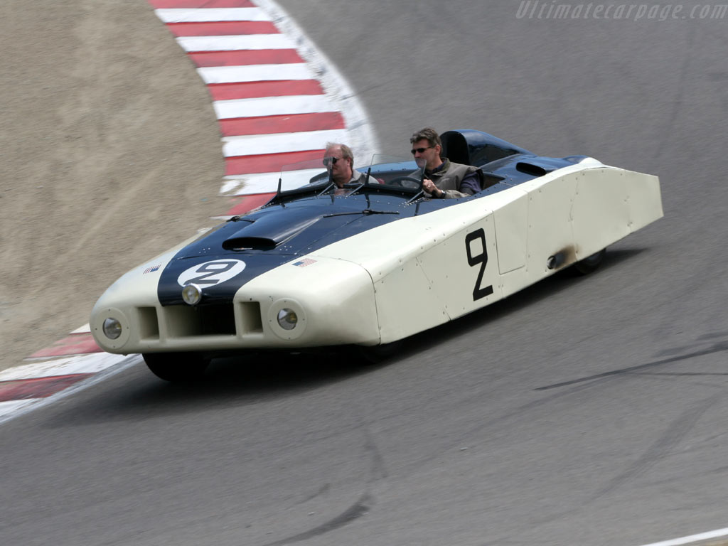 Built by Briggs Cunningham for Le Mans 1950, Cadillac mechanicals. Not my picture.